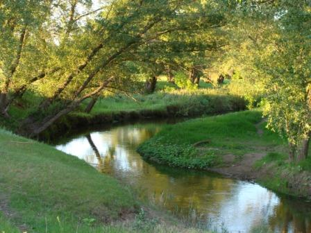 Ilovlya River. Natural Park "Don", Volgograd Region.